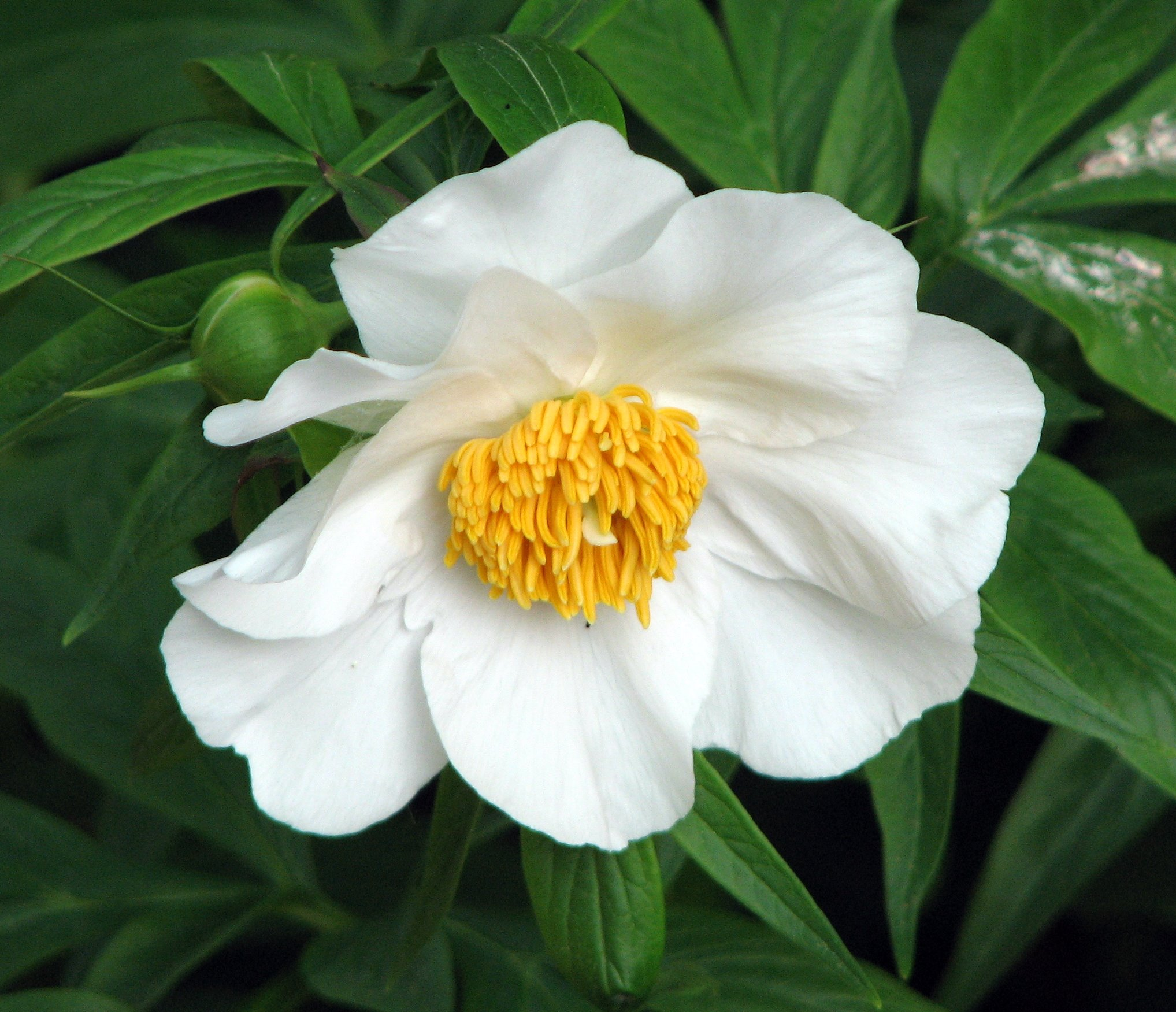 Paeonia emodi at RHS Wisley